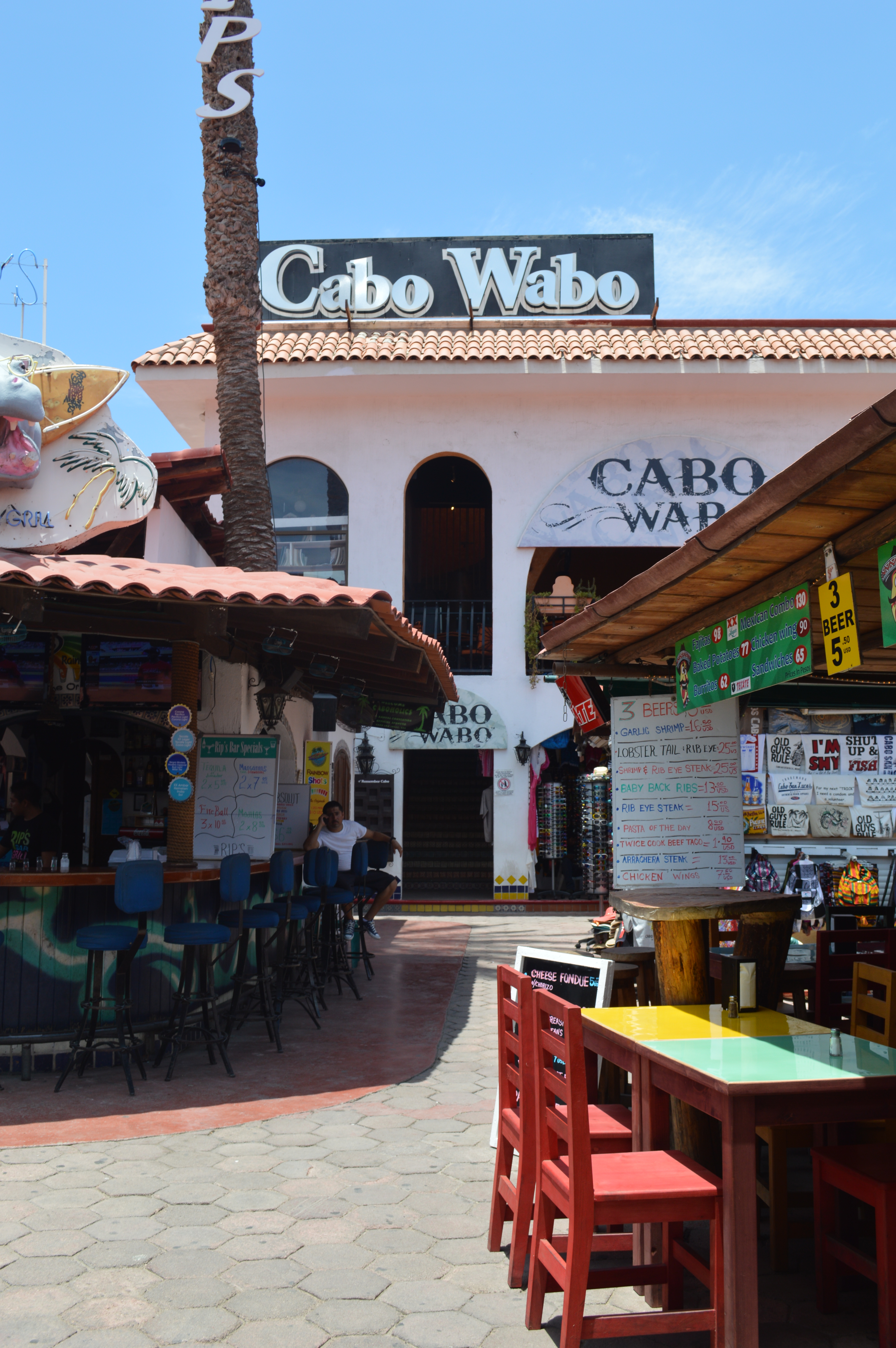 Back entrance to the Cabo Wabo in Cabo San Lucas, Baja California Sur